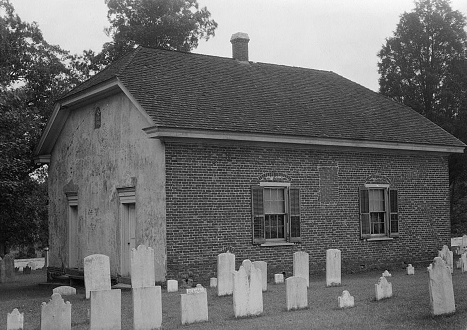 Welsh Tract Baptist Church, Welsh Tract Church Road, Newark vicinity (New Castle County, Delaware) cropped This file comes from the Historic American Buildings Survey (HABS), Historic American Engineering Record (HAER) or Historic American Landscapes Survey (HALS). These are programs of the National Park Service established for the purpose of documenting historic places. Records consist of measured drawings, archival photographs, and written reports. When reusing please credit: Library of Congress, Prints & Photographs Division, DEL,2-COOBR.V,1-1 This tag does not indicate the copyright status of the attached work. A normal copyright tag is still required. See Commons:Licensing for more information. This work is in the public domain in the United States because it is a work prepared by an officer or employee of the United States Government as part of that person’s official duties under the terms of Title 17, Chapter 1, Section 105 of the US Code. See Copyright. Note: This only applies to original works of the Federal Government and not to the work of any individual U.S. state, territory, commonwealth, county, municipality, or any other subdivision. This template also does not apply to postage stamp designs published by the United States Postal Service since 1978. (See § 313.6(C)(1) of Compendium of U.S. Copyright Office Practices). It also does not apply to certain US coins; see The US Mint Terms of Use. This file has been identified as being free of known restrictions under copyright law, including all related and neighboring rights. Object location39° 39′ 01″ N, 75° 45′ 07″ W